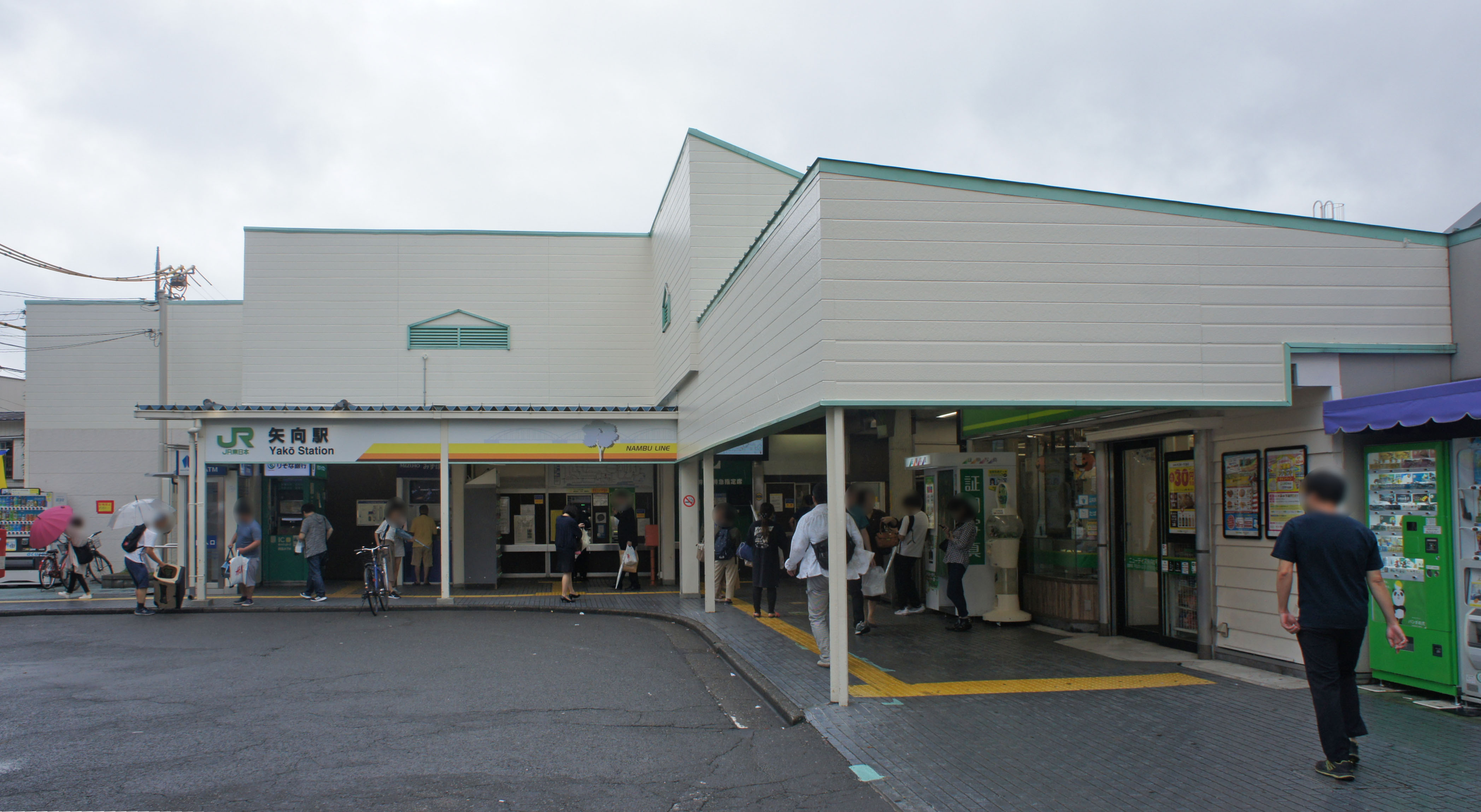 Station building of JR Nambu-Line Yako Station